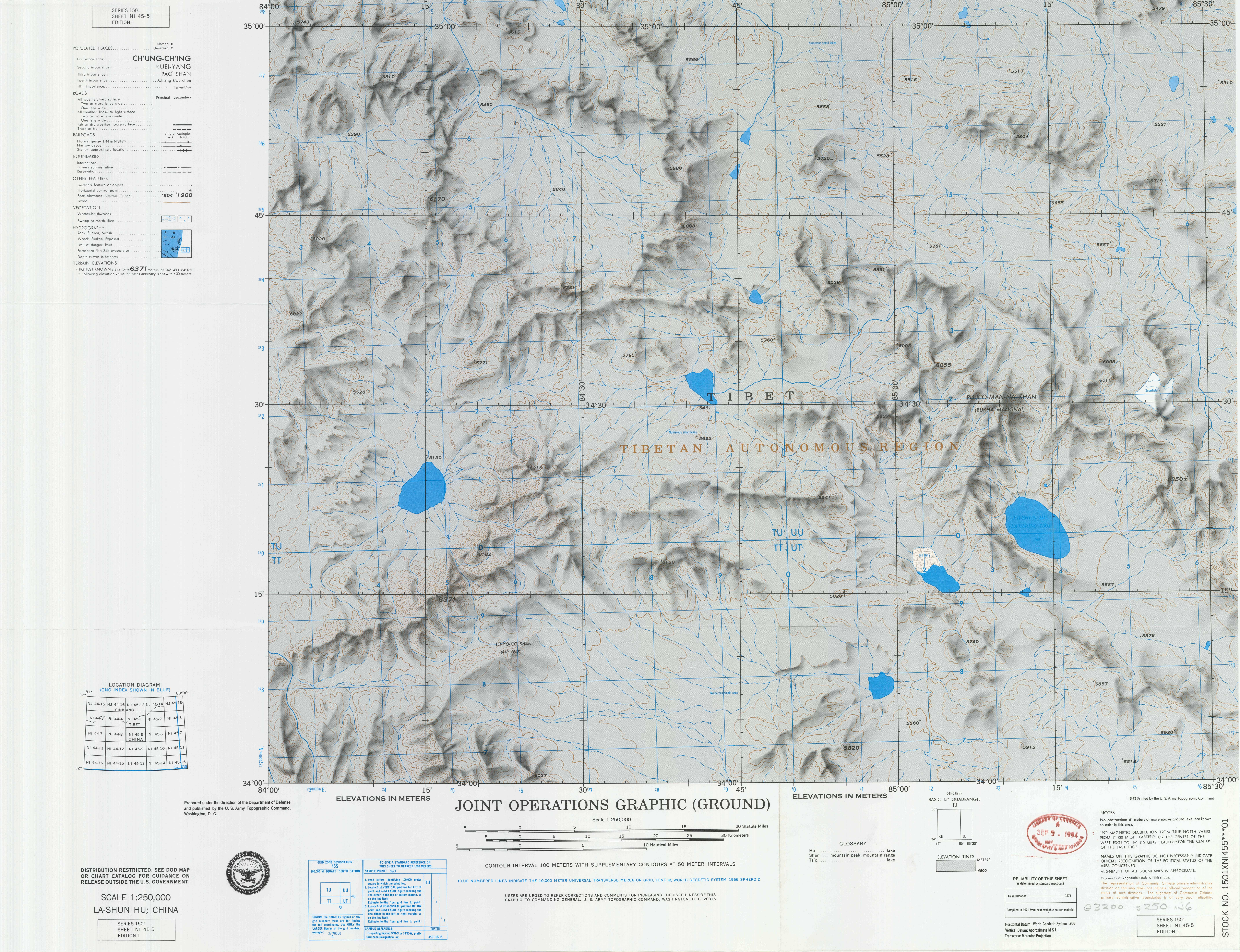 NI-45-5 Lashun Hu China